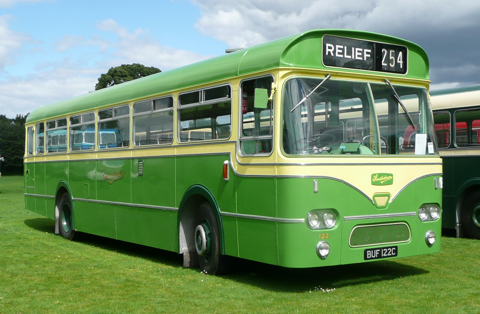 A now preserved Leyland Leopard, previously run by Southdown Motor Services, at the 2008 Alton Bus Rally.